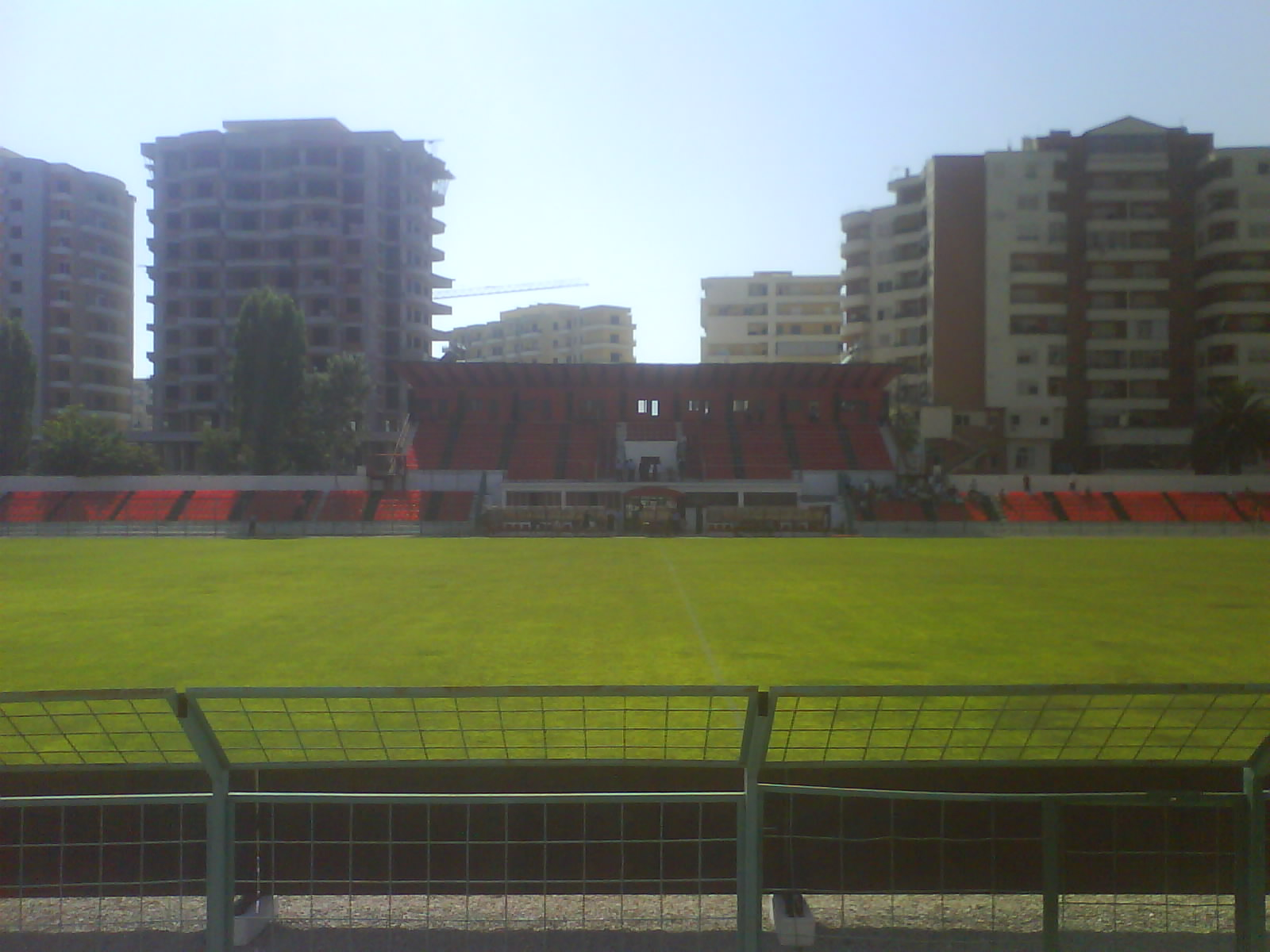 Main Stand of Flamurtari Stadium commonly known as "Qendrorja".